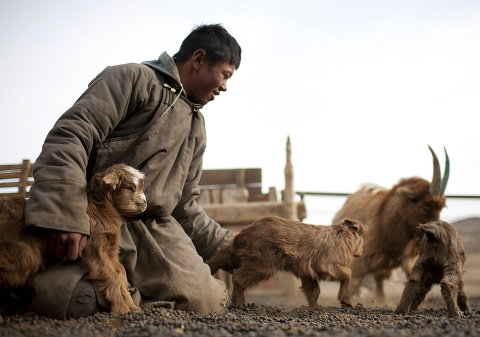 A young herder helps kids and mother goats find each other.